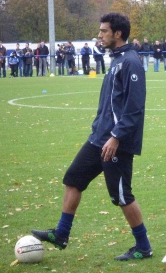 Footballer Tiago at Training